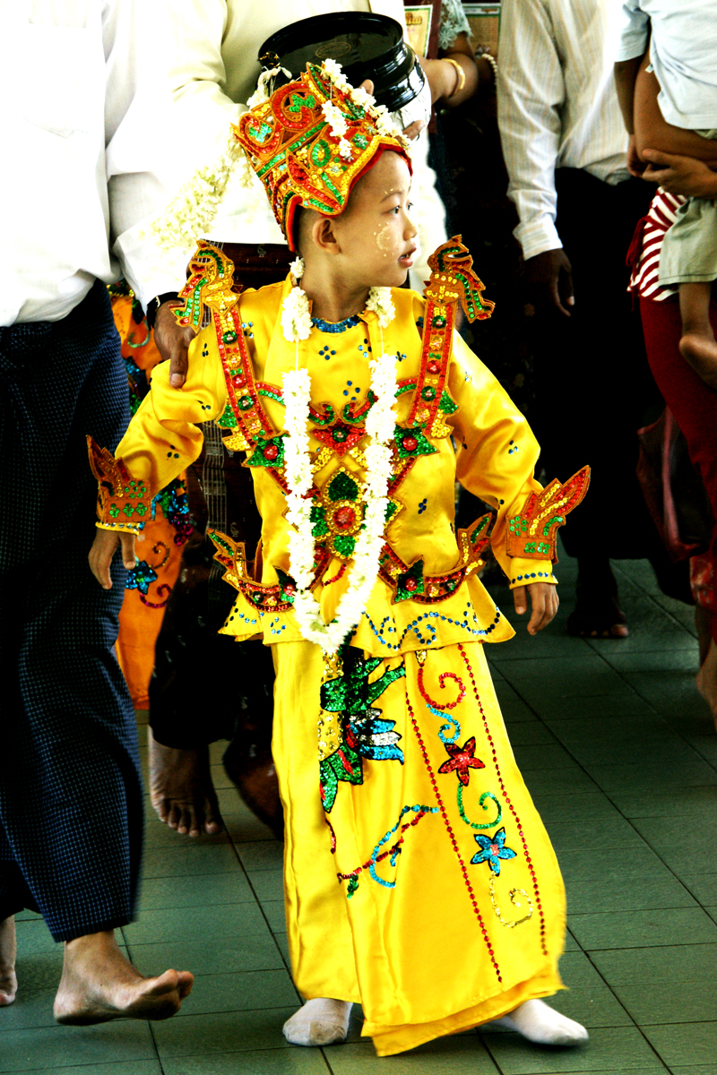 Burmese novitiate-to-be (monk) wearing princely clothes during the shinbyu procession